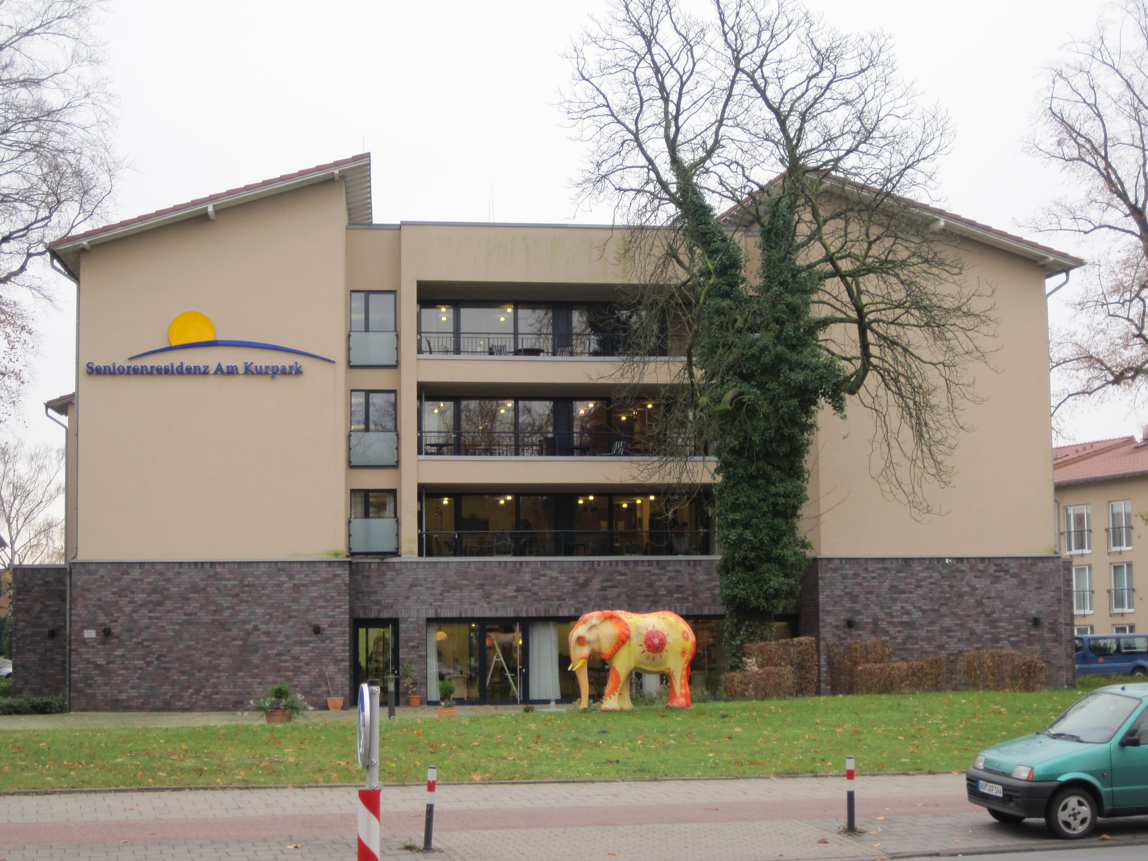 Retirement home "Am Kurpark" (At the Spa Gardens) in Hamm, Germany